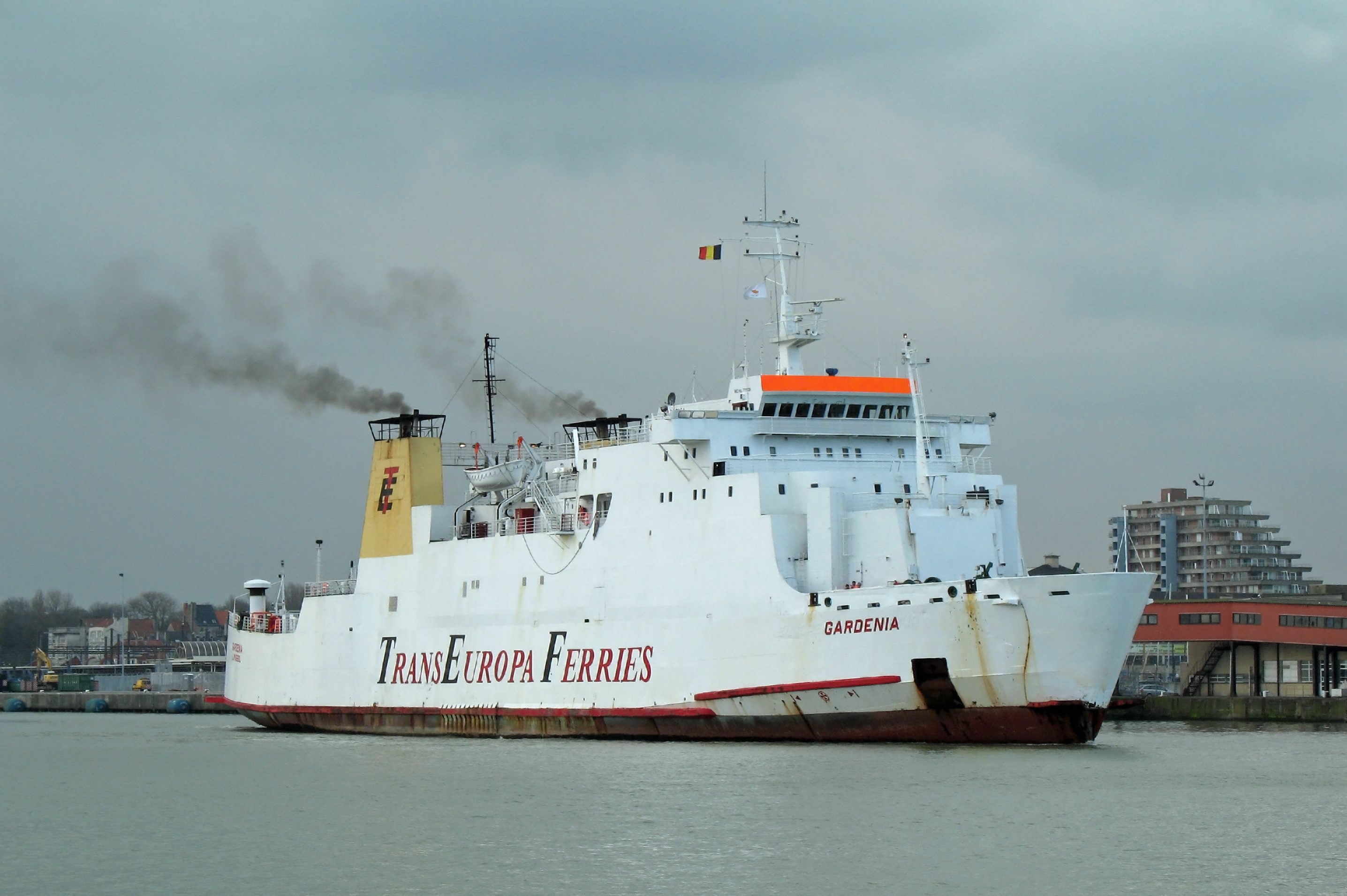 MV Gardenia leaving the harbour of Ostend (Belgium)